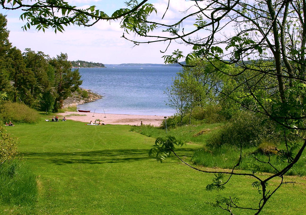 Google Earth